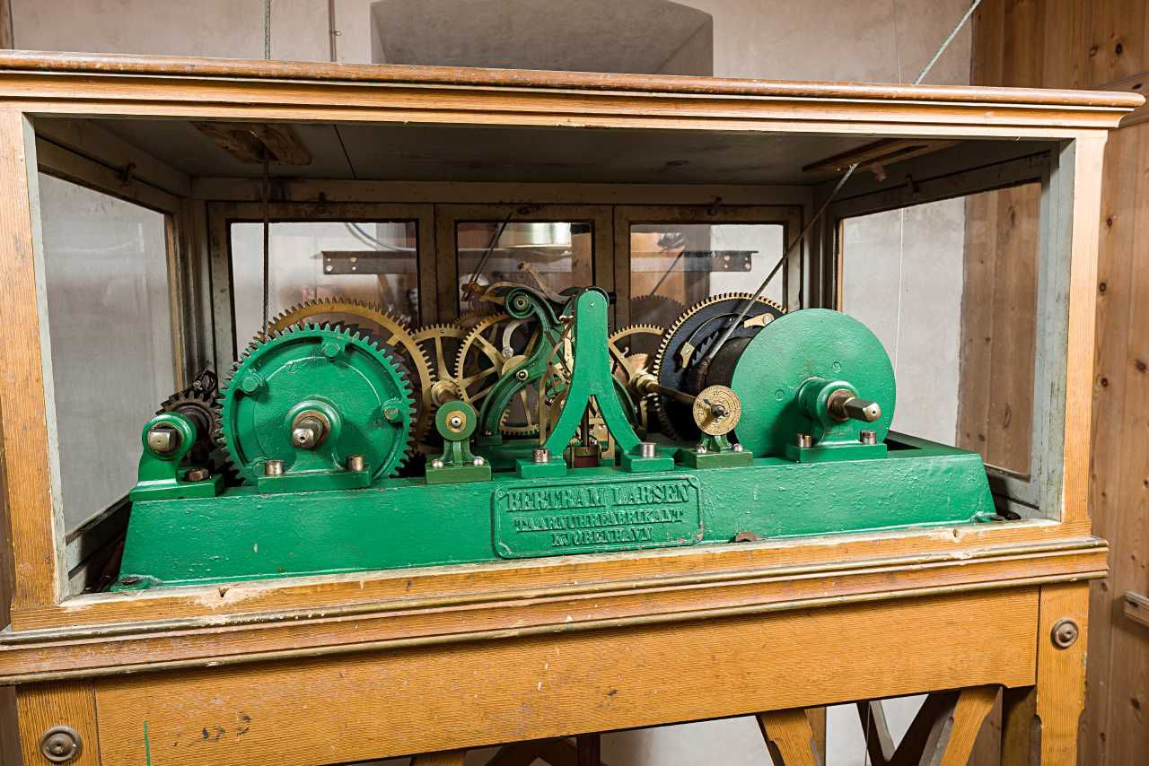 Tower clock in Ærøskøbing Church created 1885 by Bertram Larsen.